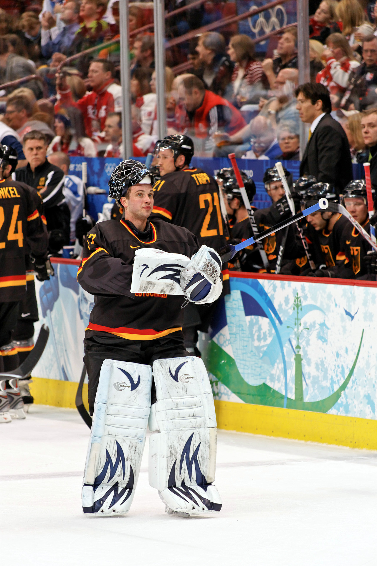 German goaltender Dimitri Pätzold takes a break in a game against Finland during the 2010 Winter Olympics